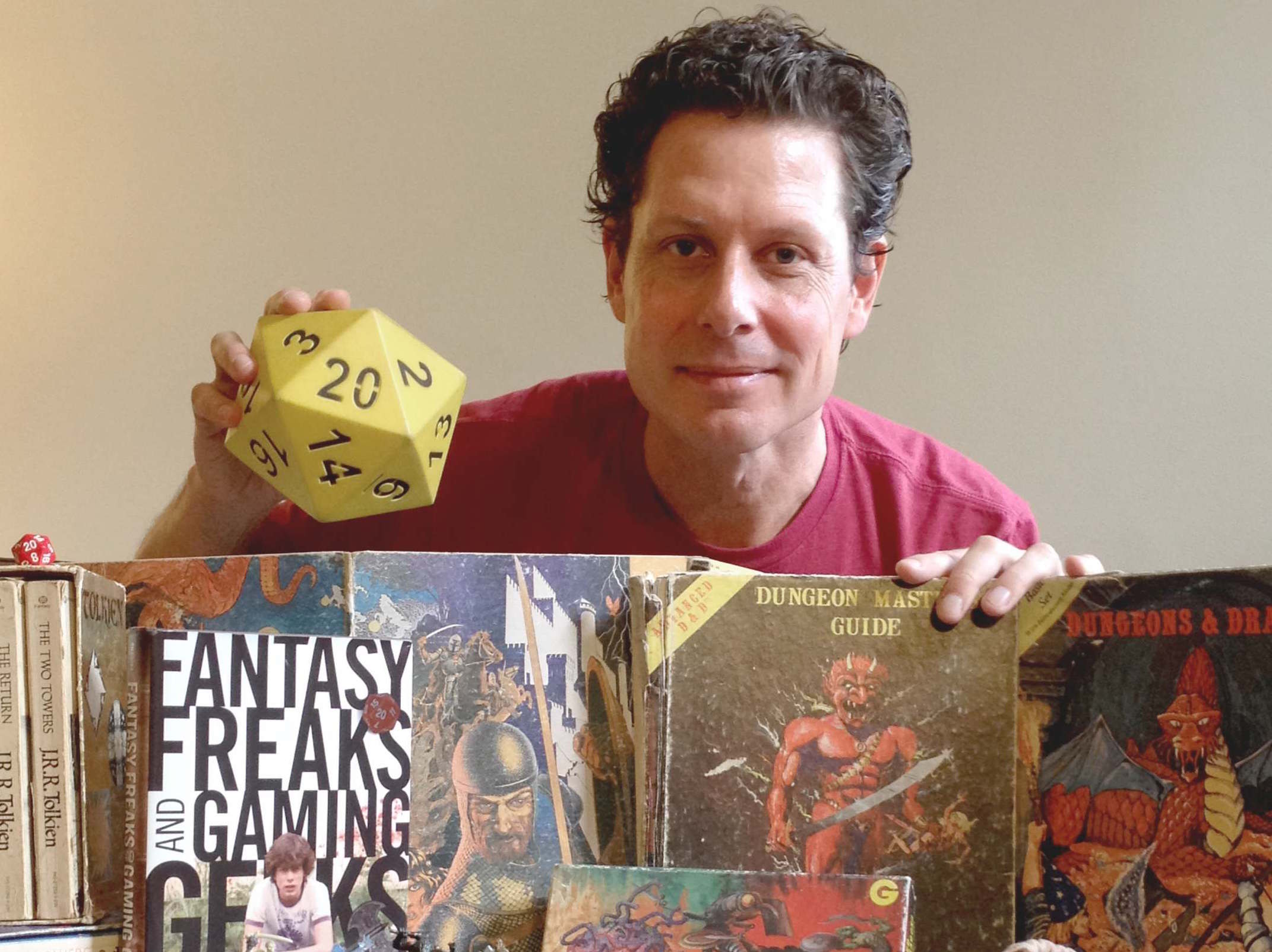 Ethan Gilsdorf with d20, Fantasy Freaks and Gaming Geeks, and D&D gaming materials.